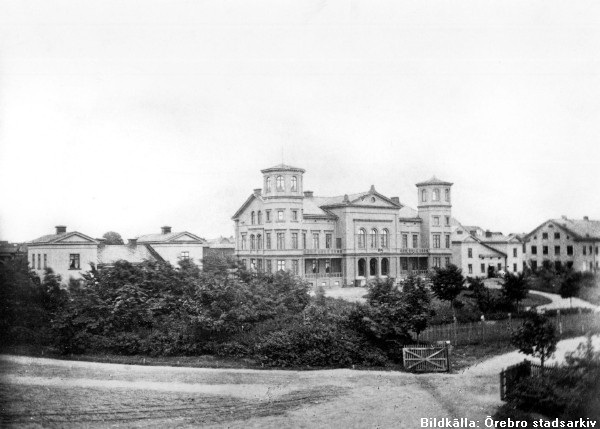 The Segelberg palace in Örebro Sweden 1934